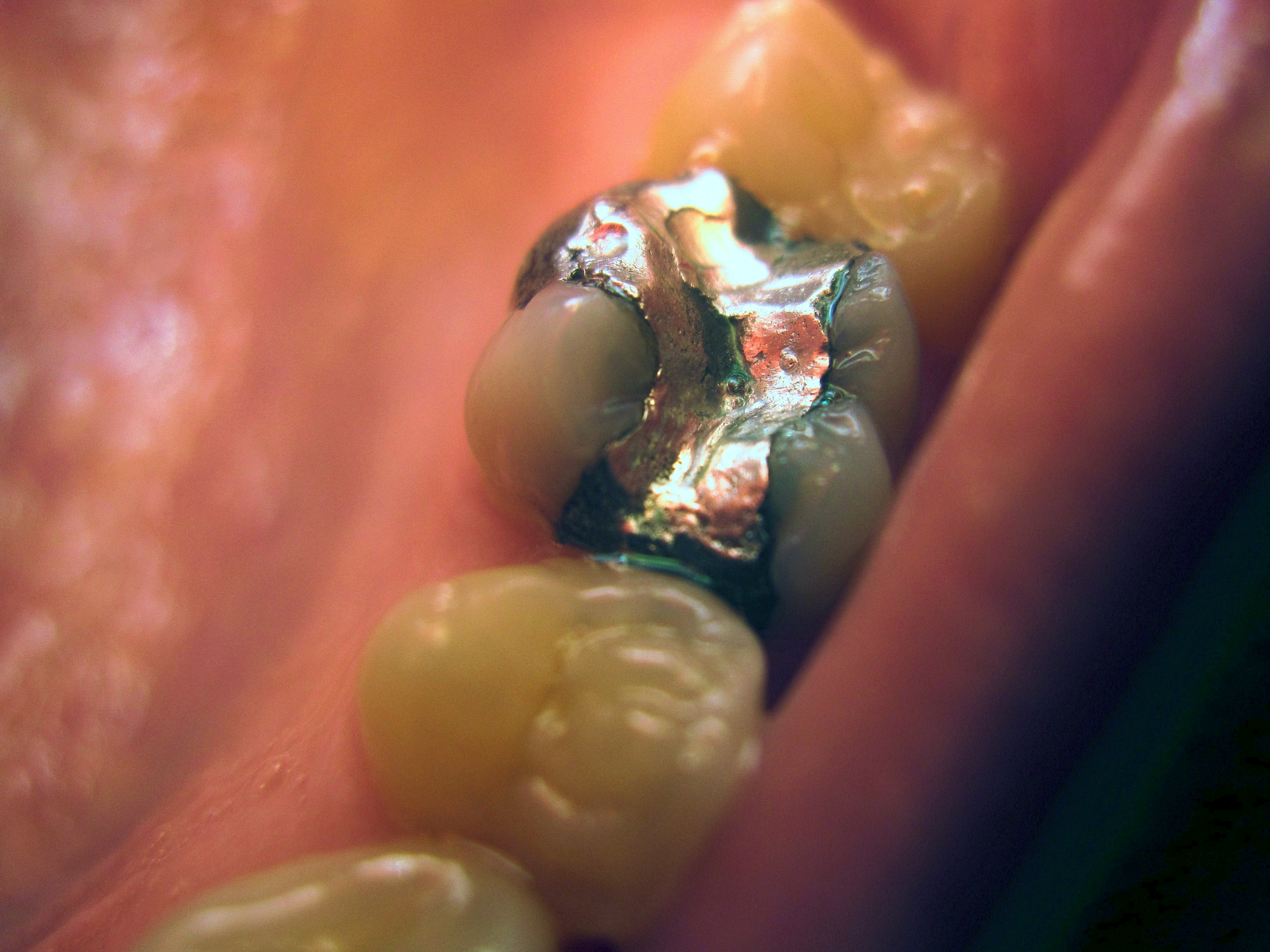 Mercury filling on first molar, shown upside down